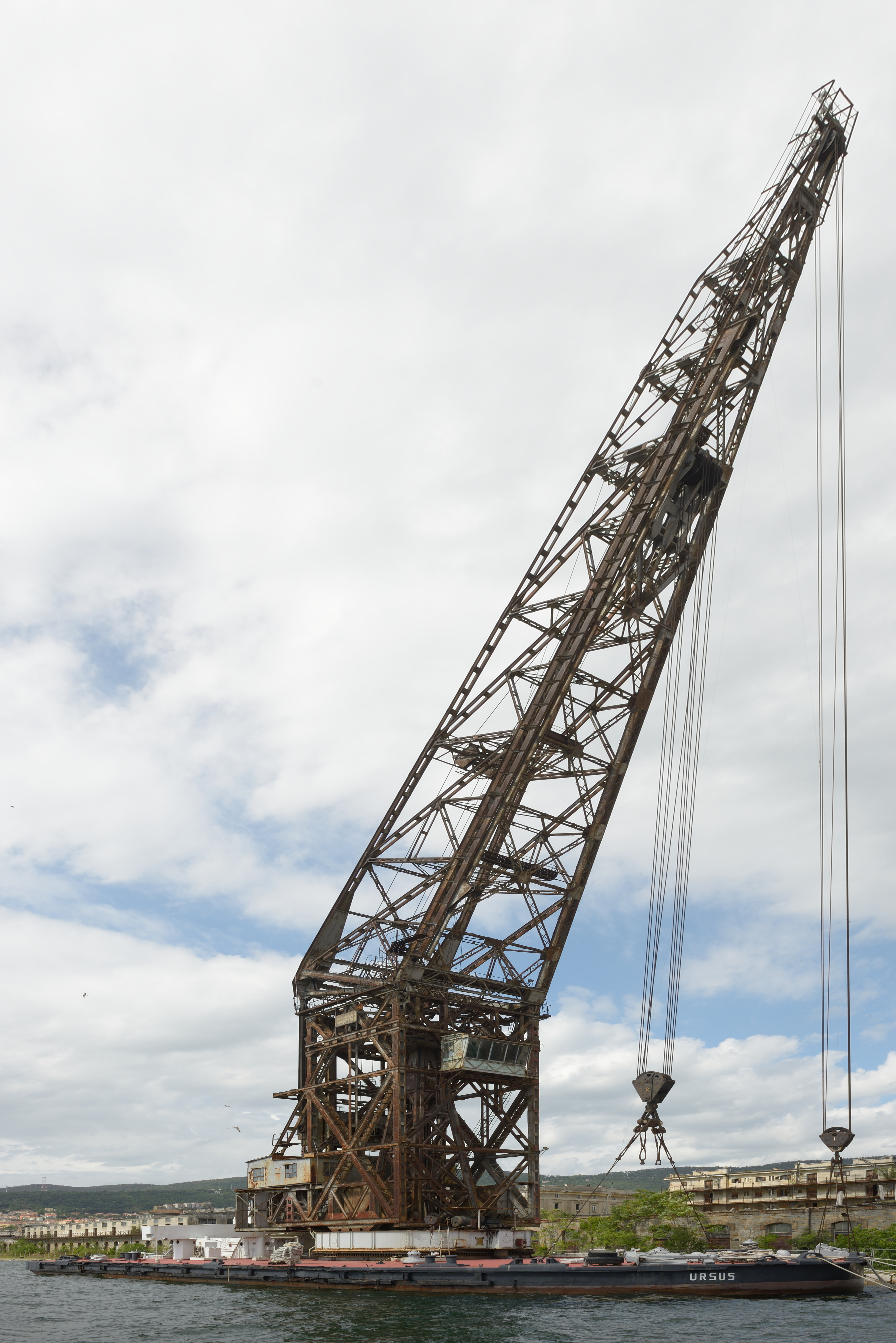 The crane Ursus in the Triest harbour.